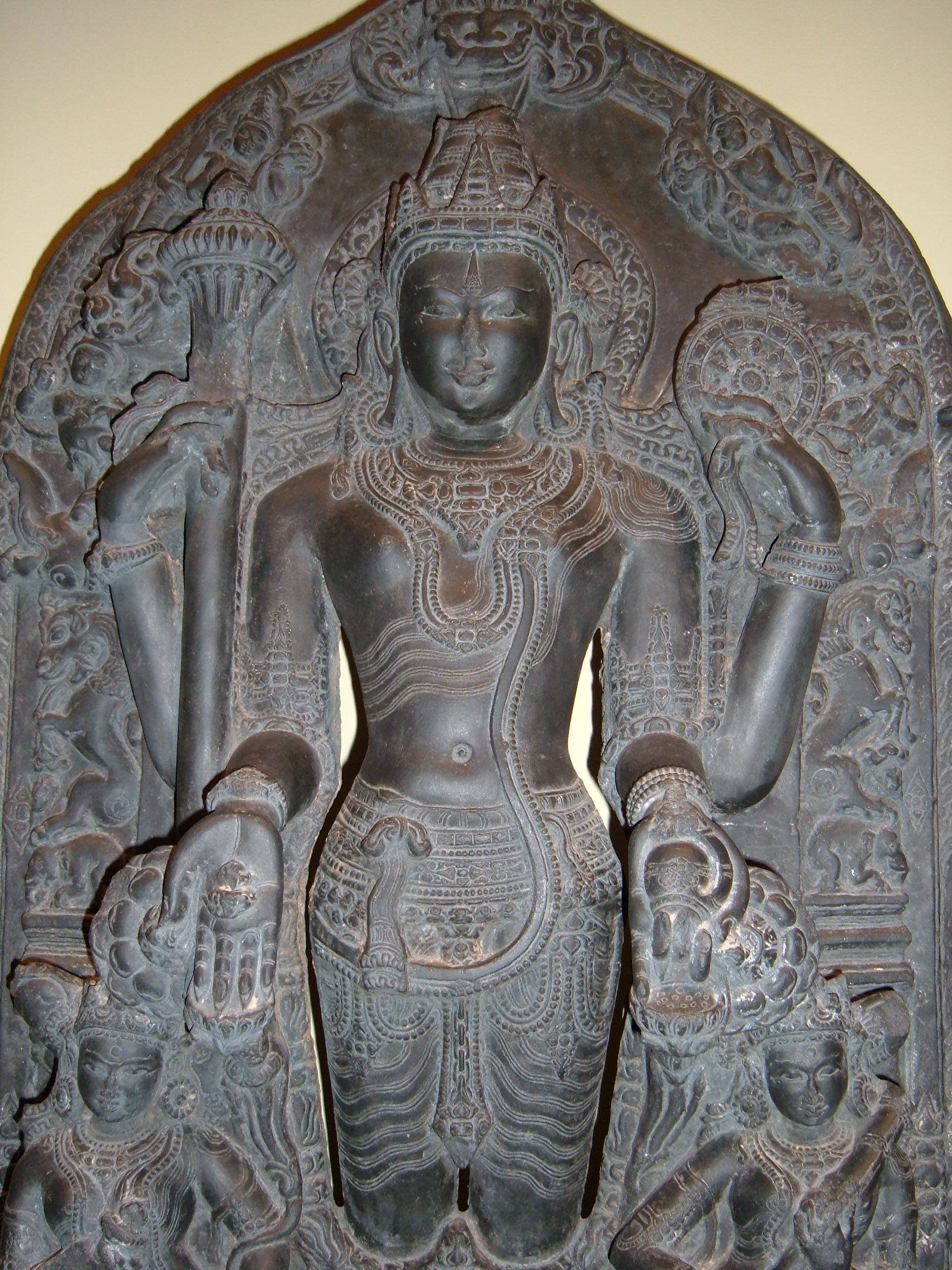 A stone sculpture of Vishnu with Lakshmi and Sarasvati from West Bengal (12th century) on display at the Iris & B. Gerald Cantor Center for Visual Arts on the Stanford University campus in Stanford, California. See Image:Stone Vishnu with Sarasvati and Lakshmi 1 CAC.JPG. 1994.13